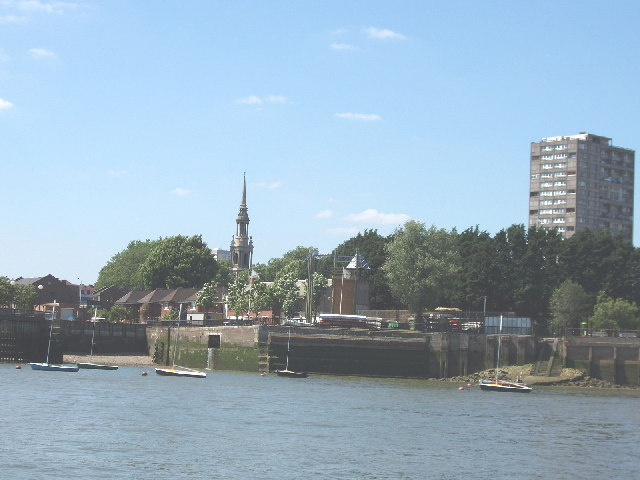 St Pauls Church Shadwell and the Thames riverfront. Taken from a riverboat, from the south-east of the church. The church (built in 1821) is at 302 The Highway, and the parish is combined with St James Ratcliffe. St Paul is known as the sea-captains' church.